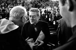 Jean-Marie Lustiger